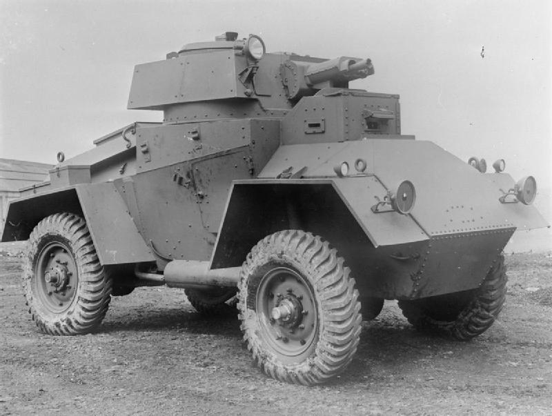 Tanks and Afvs of the British Army 1939-45 Guy Mk I armoured car